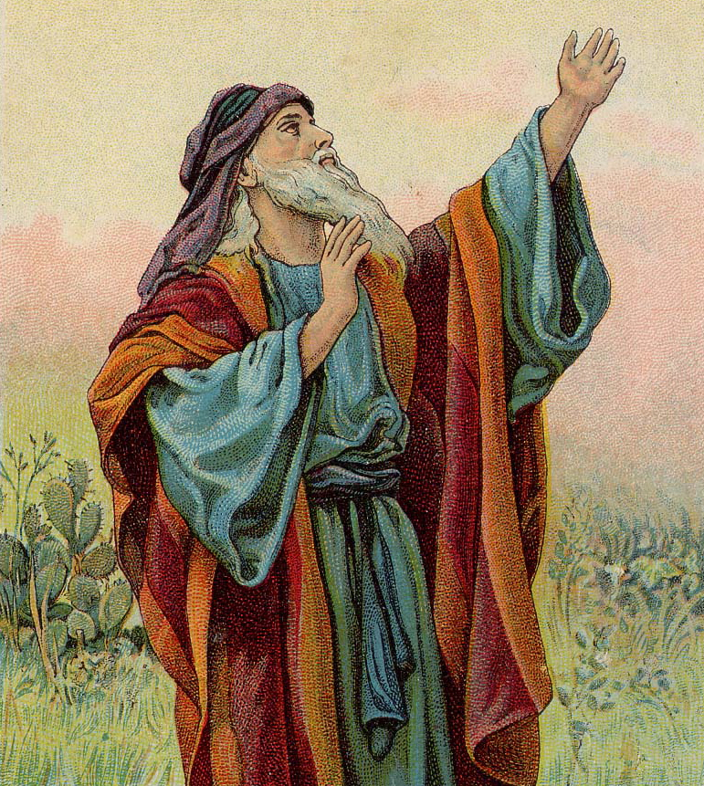 Isaiah; illustration from a Bible card published by the Providence Lithograph Company